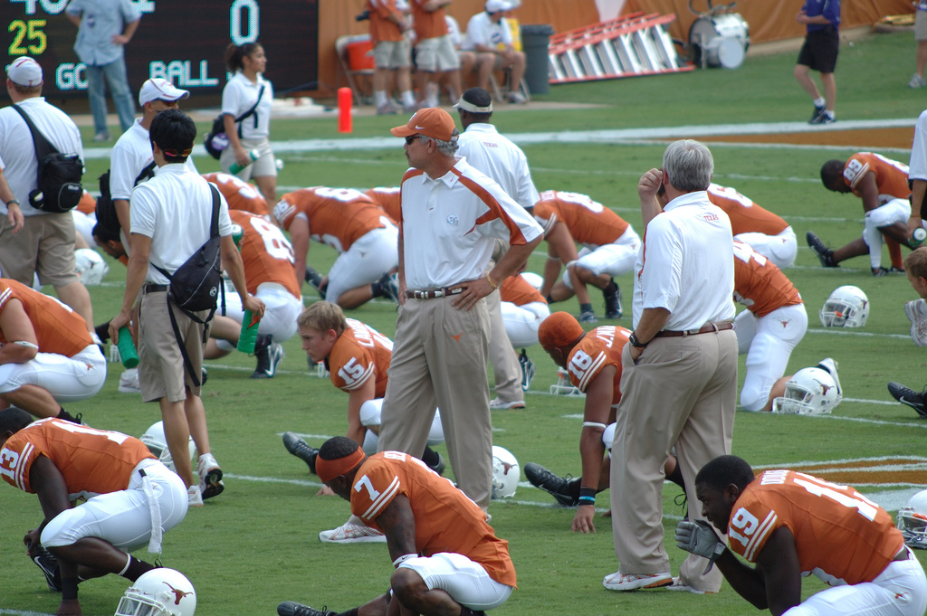 Pre-game stretch